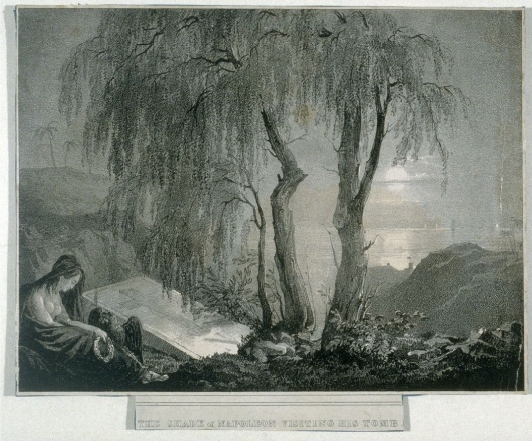 Victor Adam, artist French, 1801 - 1866 The Shade of Napoleon Visiting his Tomb (Death of Napoleon), 19th century